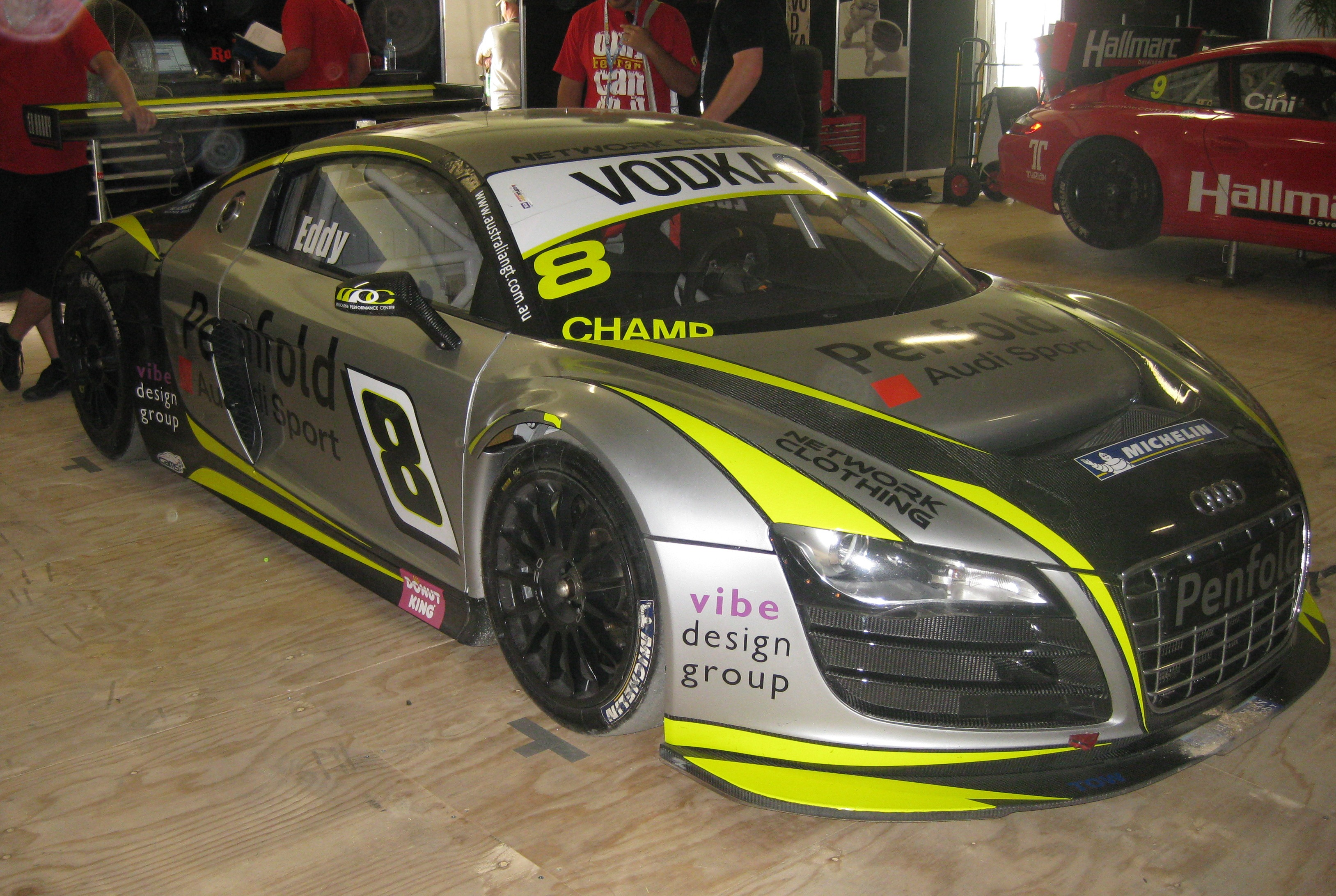 The Audi R8 of Mark Eddy at the Adelaide Parklands Circuit for the opening round of the 2011 Australian GT Championship